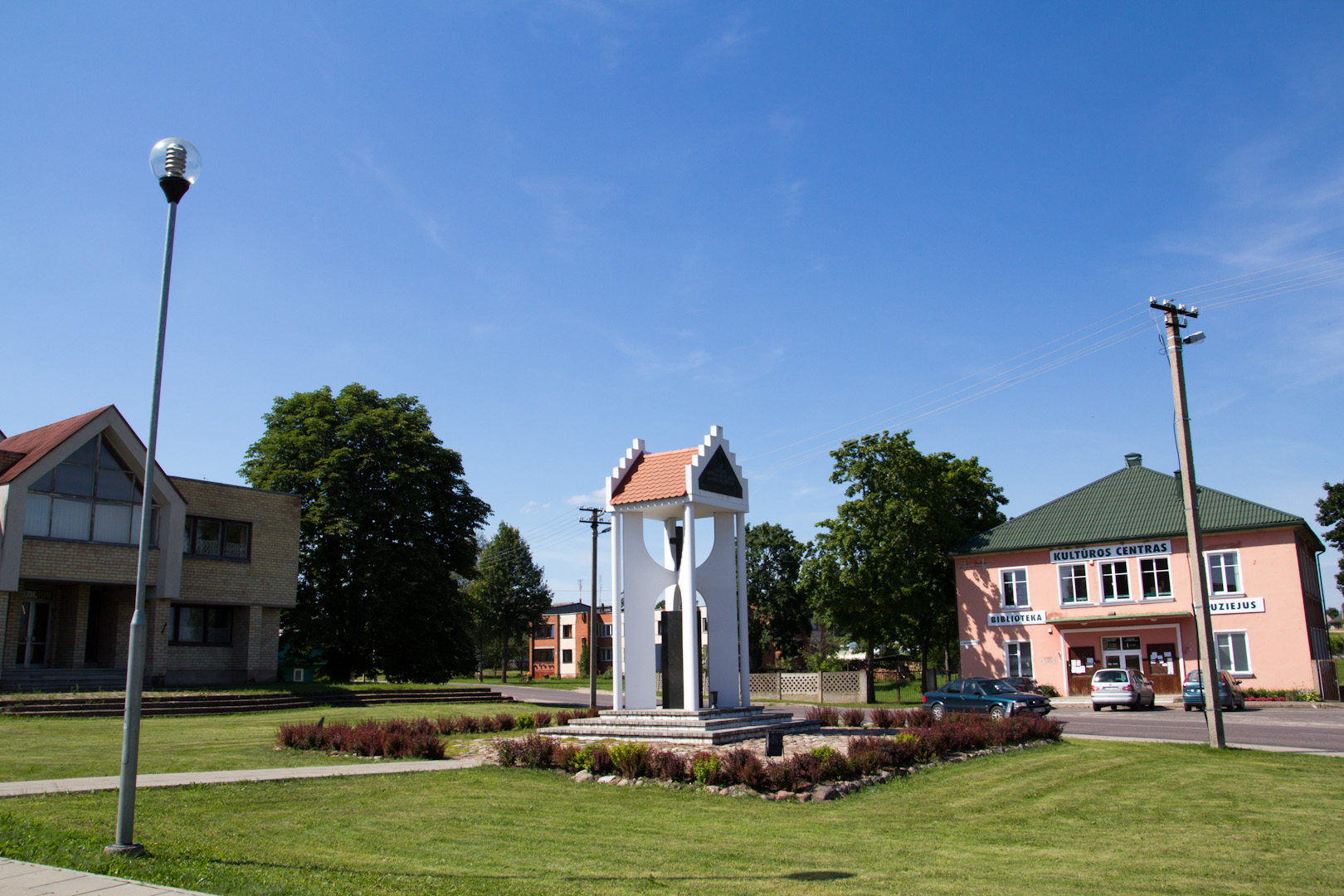 Tauragnai (2012)